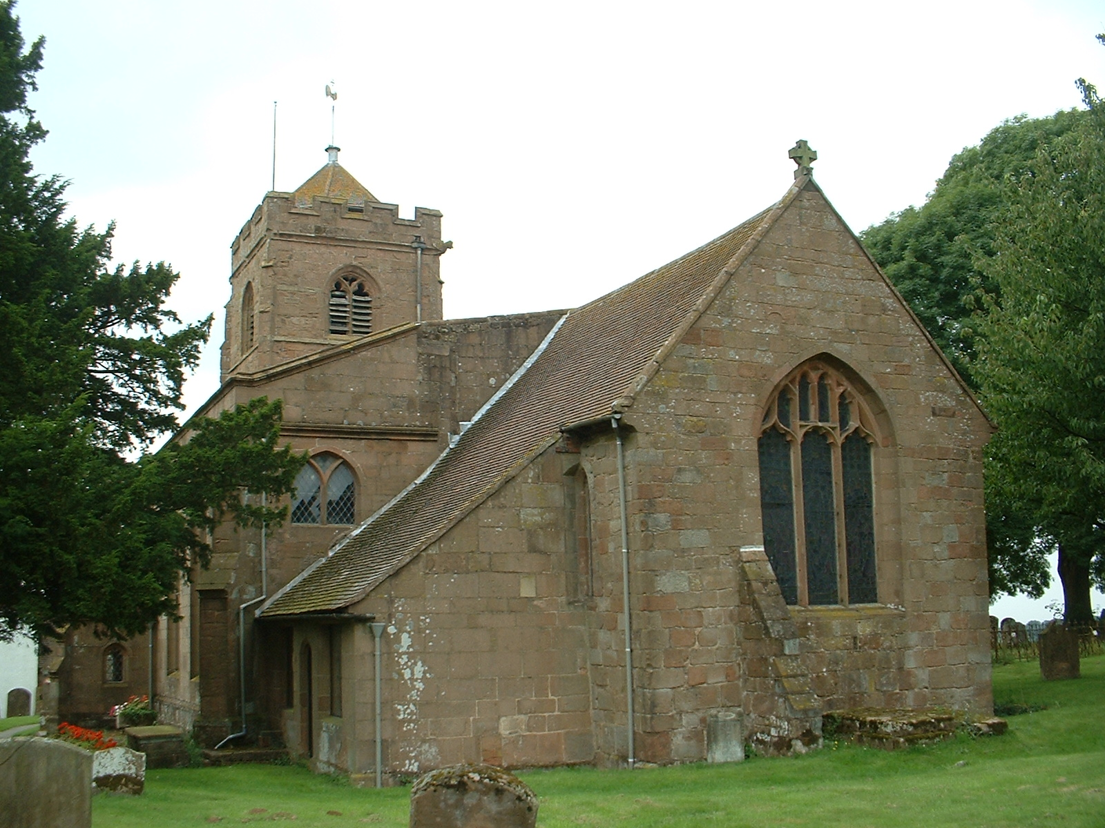 Church of St. Lawrence, Meriden, West Midlands, (historically Warwickshire), England. Taken by Necrothesp, 31 July 2005.